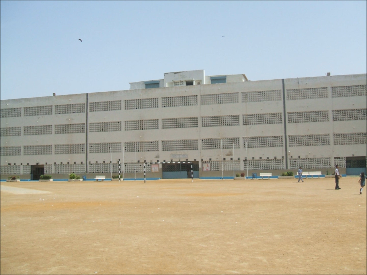 The Secondary Section building of St. Michael's Convent School